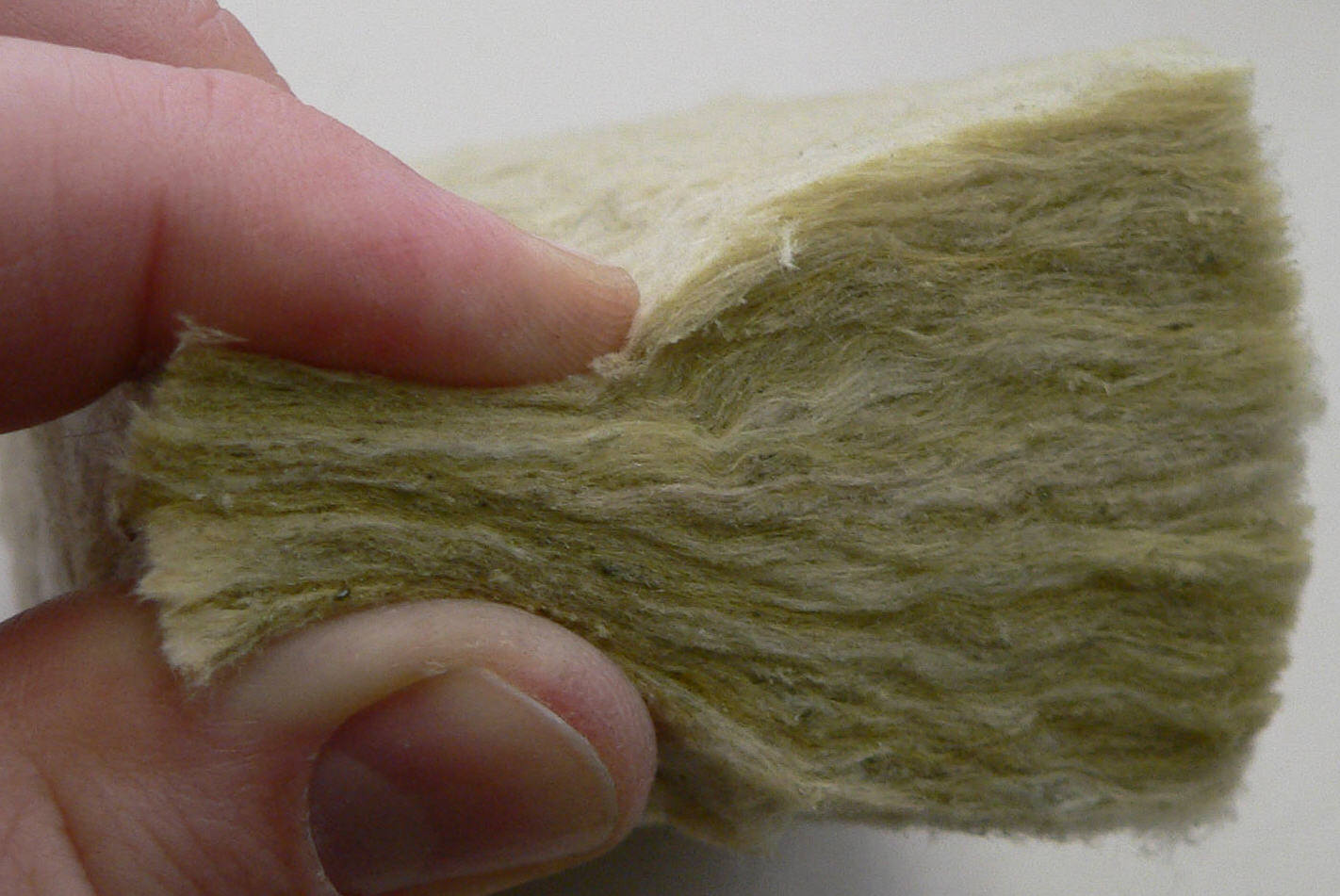 4# Rockwool